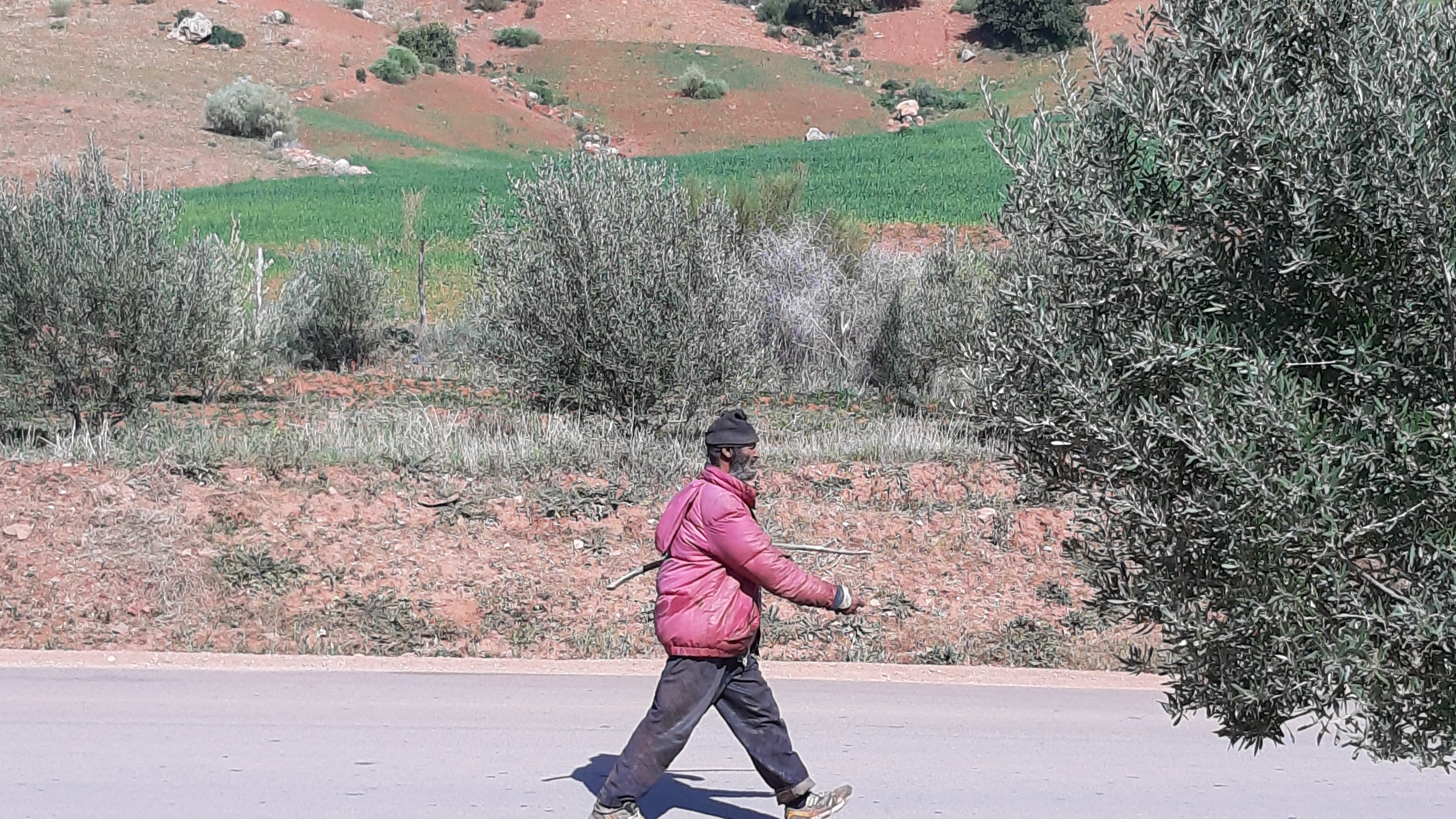 This is an image with the theme "Africa on the Move or Transport" from: Morocco